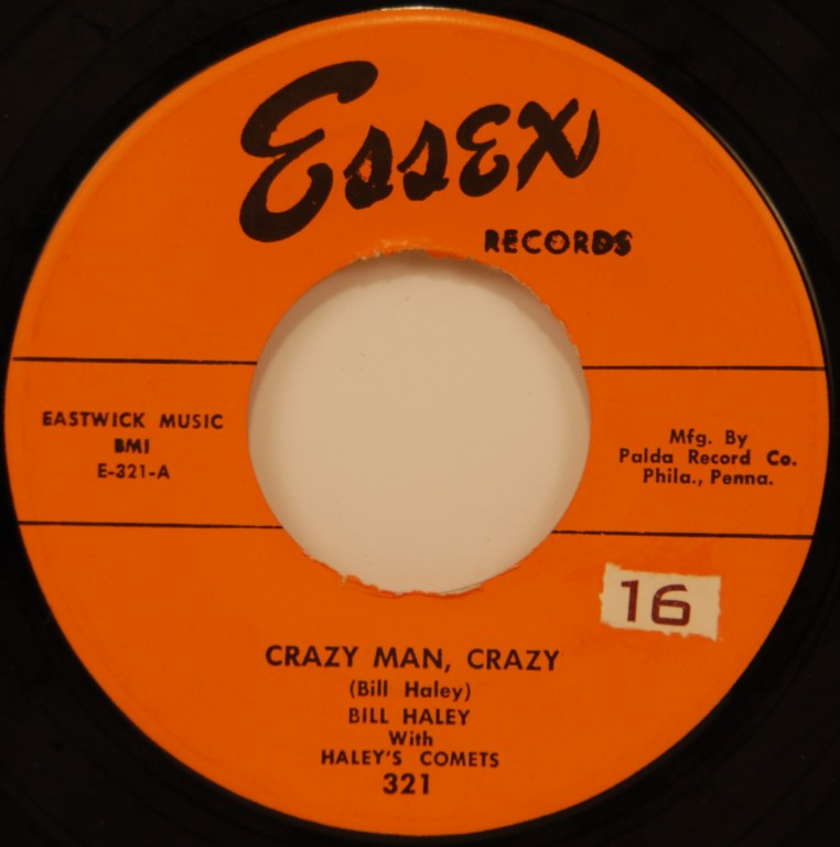 Crazy Man, Crazy by Bill Haley with Haley's Comets, Essex 1953.